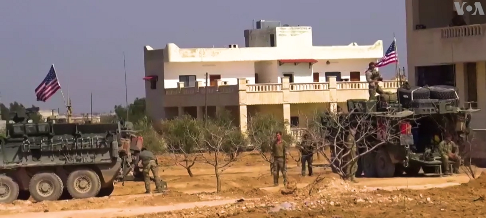 United States special operations forces in a village near Manbij, acting as advisors to the Syrian Democratic Forces and as peacekeepers to deter Turkey from further attacks.